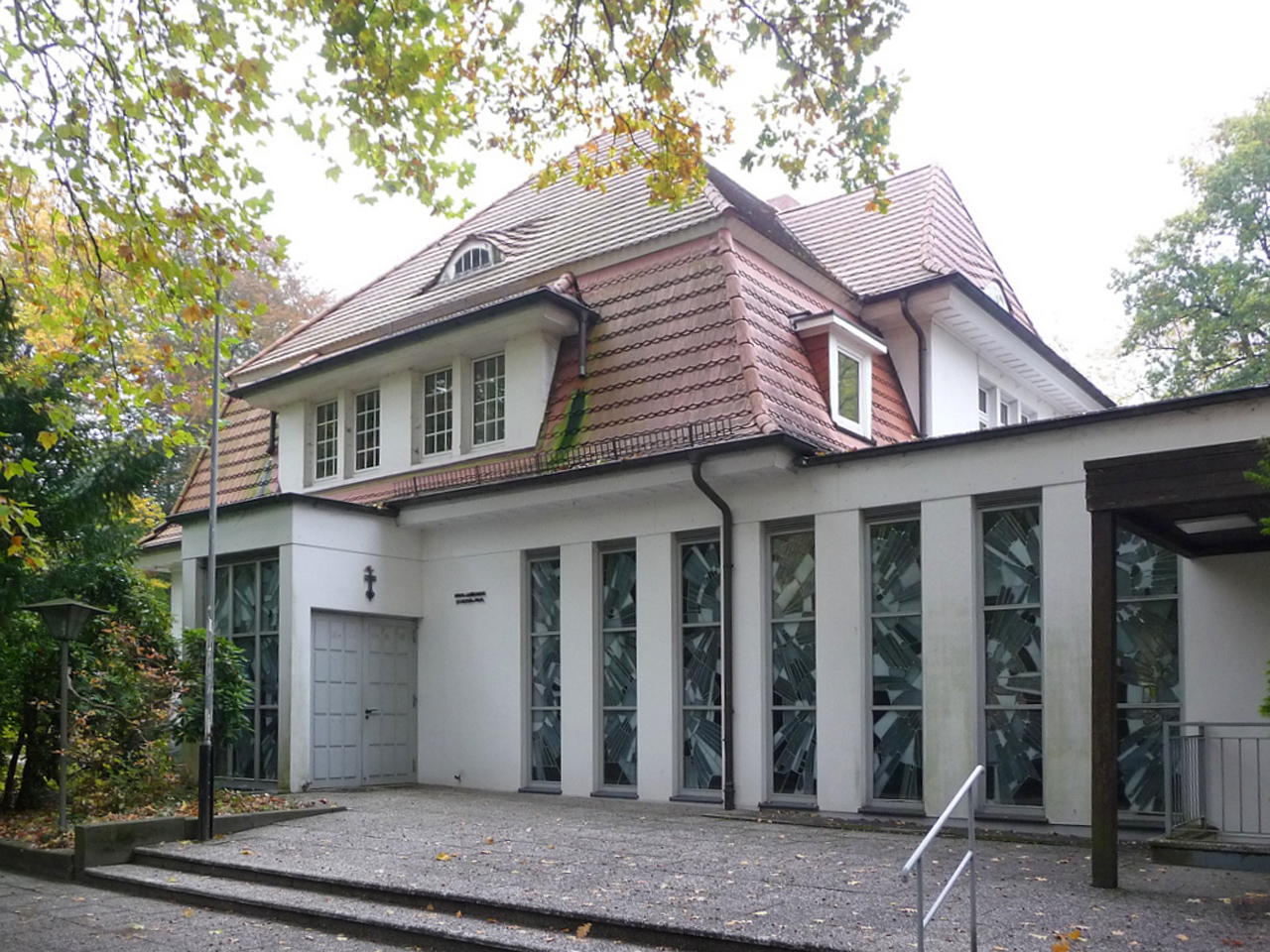 kath. church St. Peter and Paul in Bremen-St. Magnus